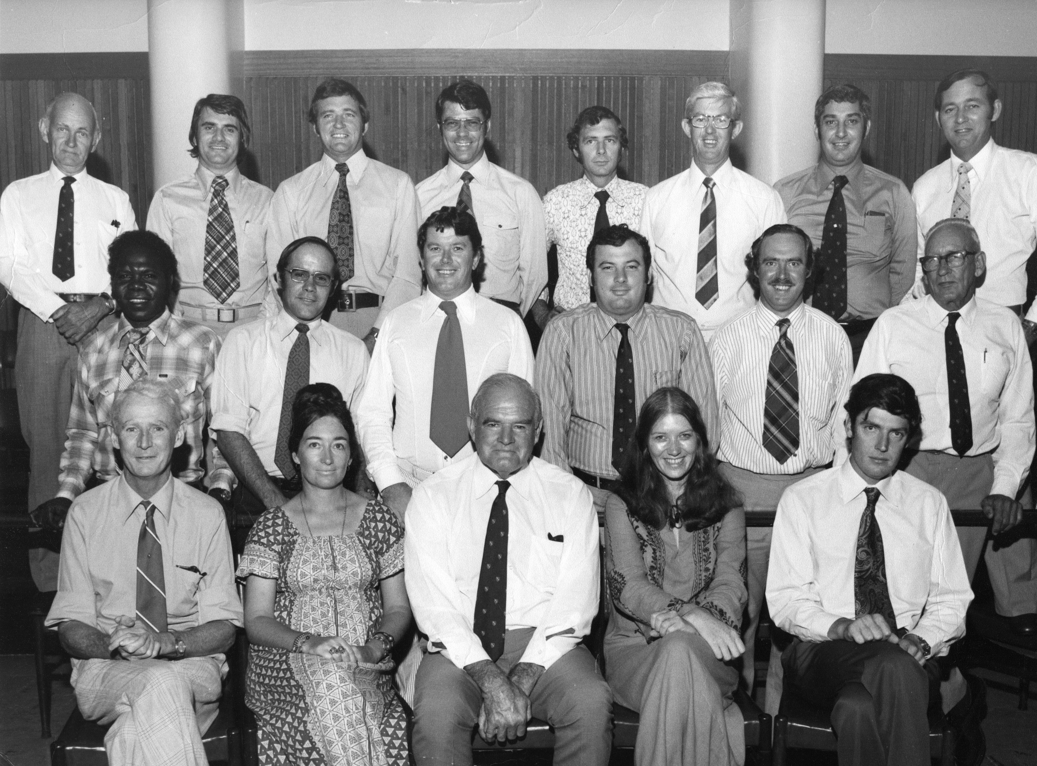 The first Northern Territory Legislative Assembly, 1976. In the back row, from left to right: Ron Withnall, Grant Tambling, Milton Ballantyne, Eric Manuel, Marshall Perron, Ian Tuxworth, Nick Dondas, Roger Steele. Middle row: Hyacinth Tungatalum; Roger Vale; Roger Ryan; Paul Everingham; Dave Pollock; Rupert Kentish. Front row: Geoff Letts; Dawn Lawrie; Les MacFarlane; Liz Andrew; Jim Robertson. Eric Manual replaced Bernie Kilgariff in the 1976 Alice Springs by-election.